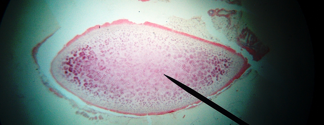 Hyaline cartilage